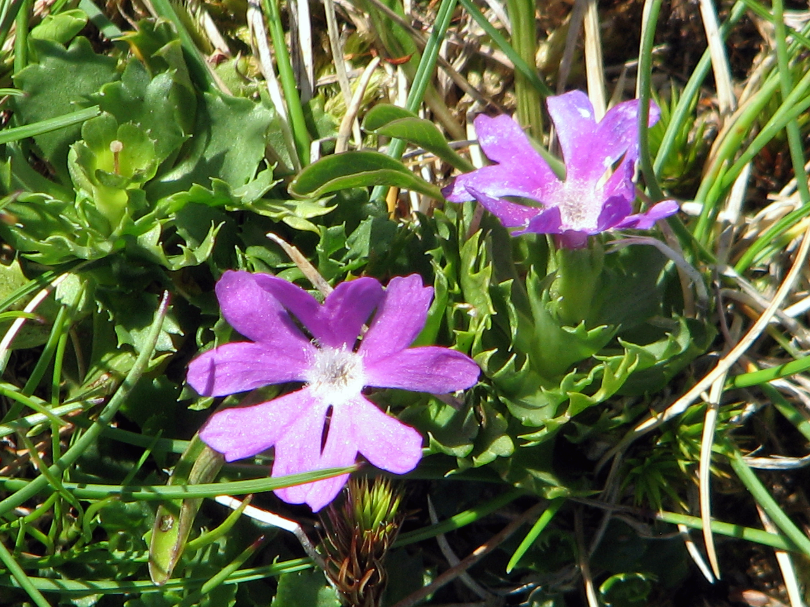 Primula minima, Seckauer Alpe (1850m), Styria, Austria